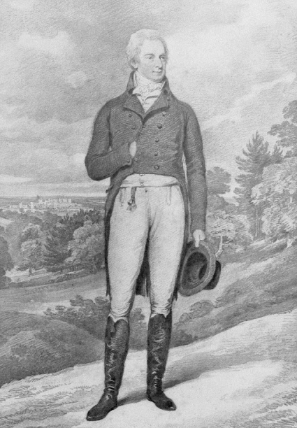 Portrait of Hon. George Villiers (1759–1827), British courtier and politician.